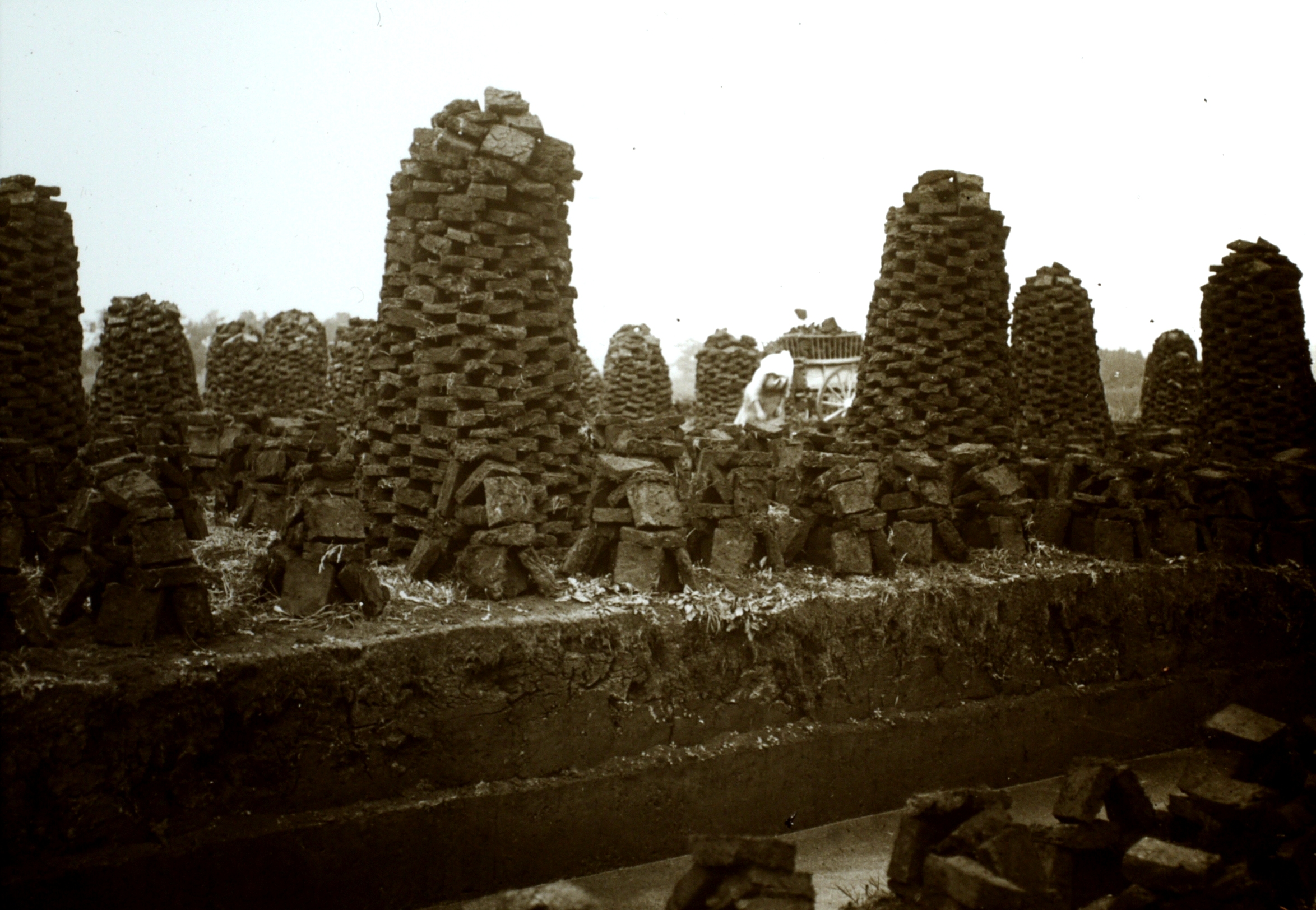 Sept 1905 - near Westhay - photo by A.E.Hasse of Baildon Yorks. Original on 6x6 glass slide diapositive